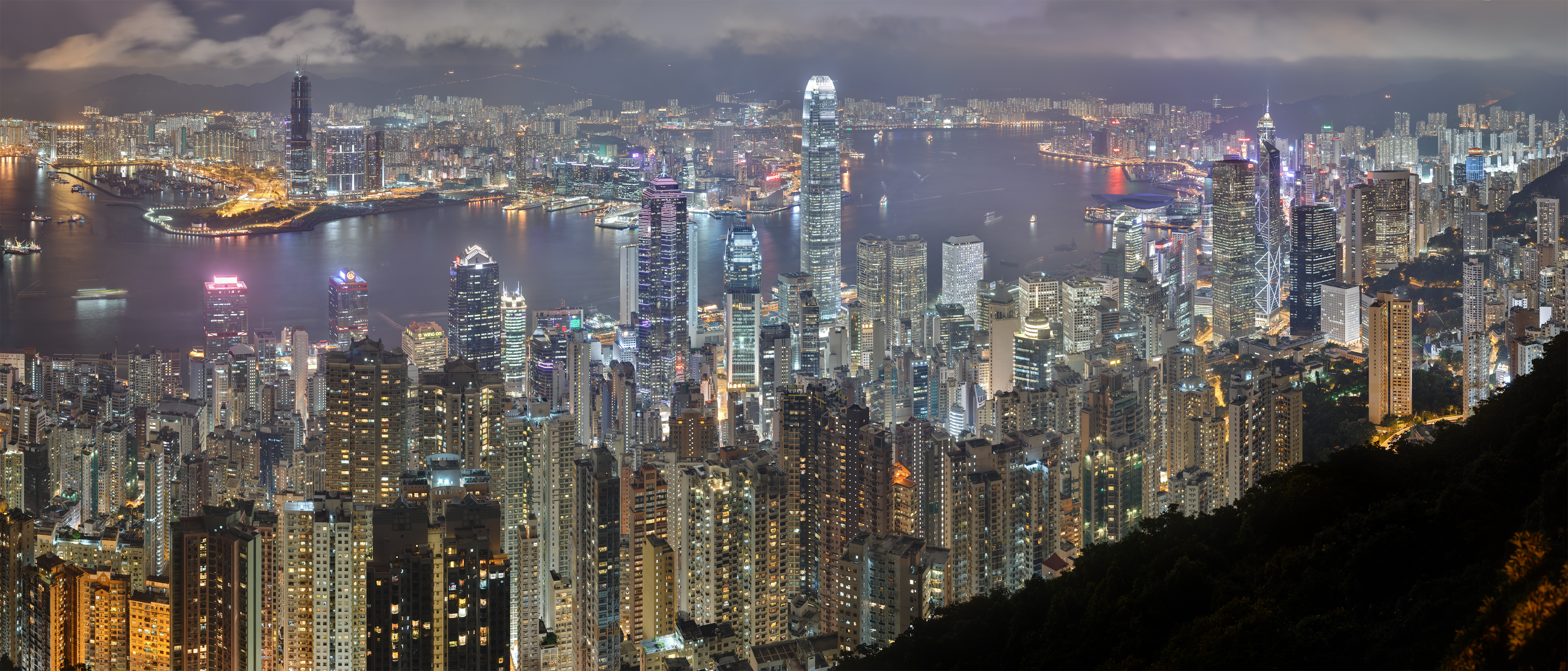 A 46 segment × 3 exposure HDR panorama of the Hong Kong night skyline. Taken from Lugard Road at Victoria Peak.